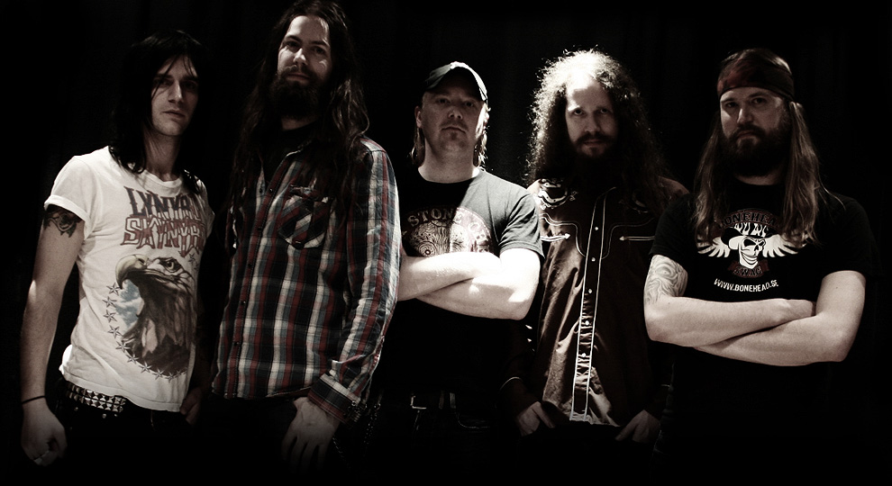 Swedish hard/southern rock band Backdraft, from left to right: Jon Sundberg, Jonas Åhlén, Niklas Matsson, Mats Rydström, Robert Johansson.